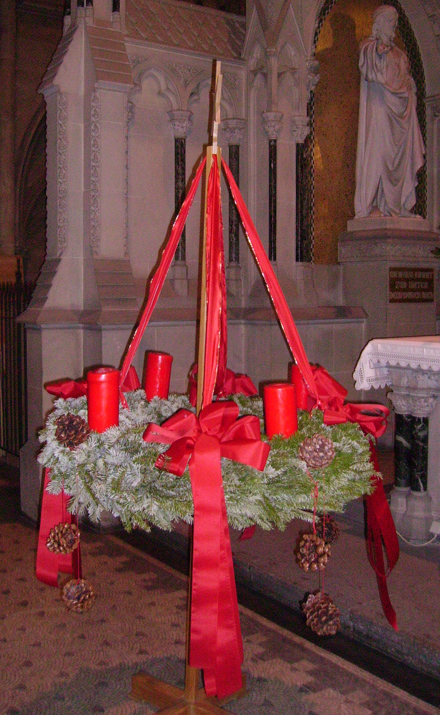 Gedächtniskirche (Memorial Church) in Speyer, Germany